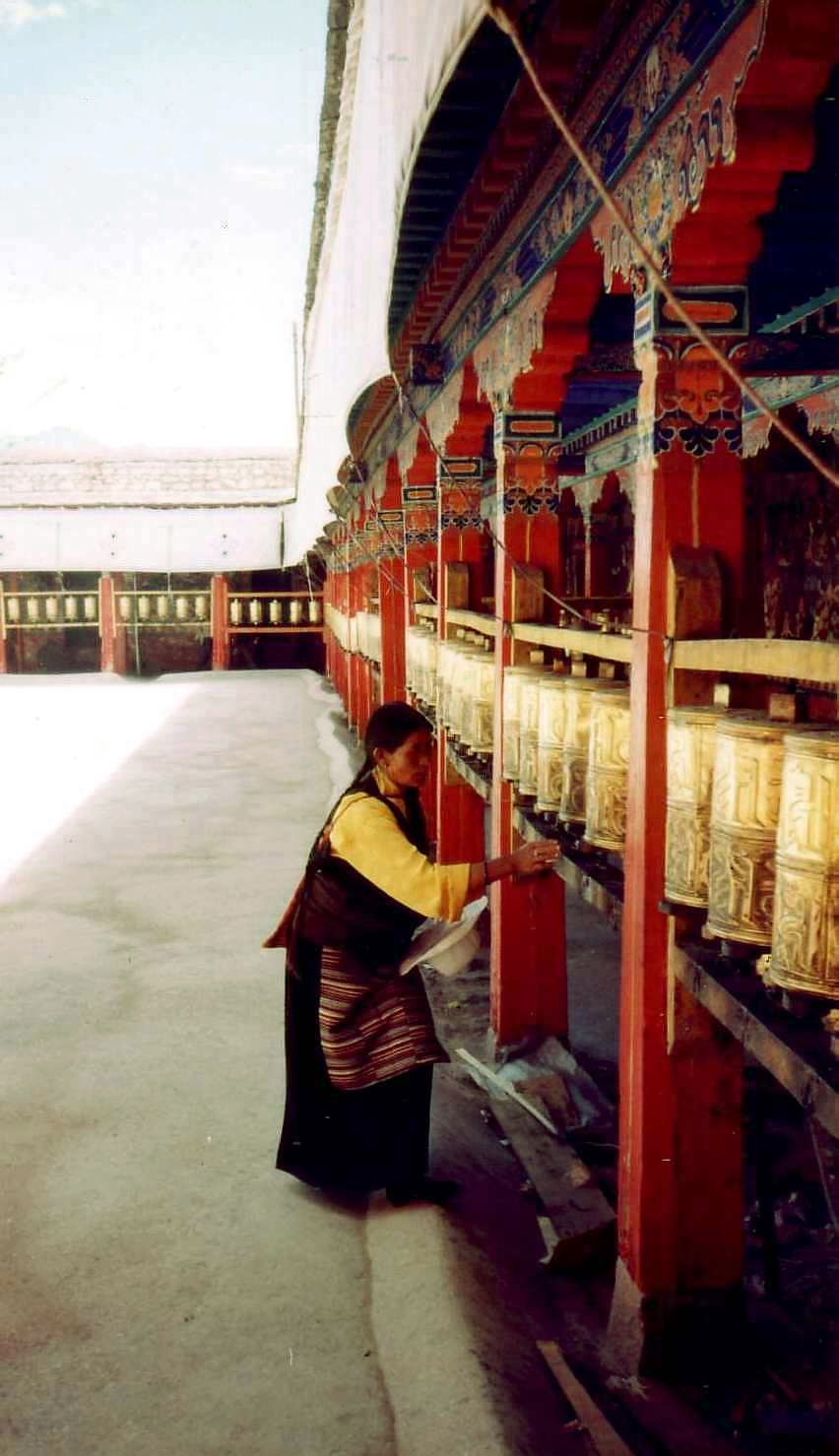 I took this photo in 1993. John E. Hill 04:45, 1 February 2007 (UTC)